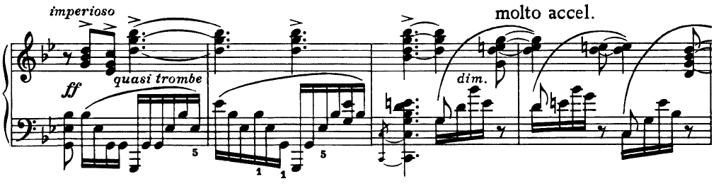 mm.114-117